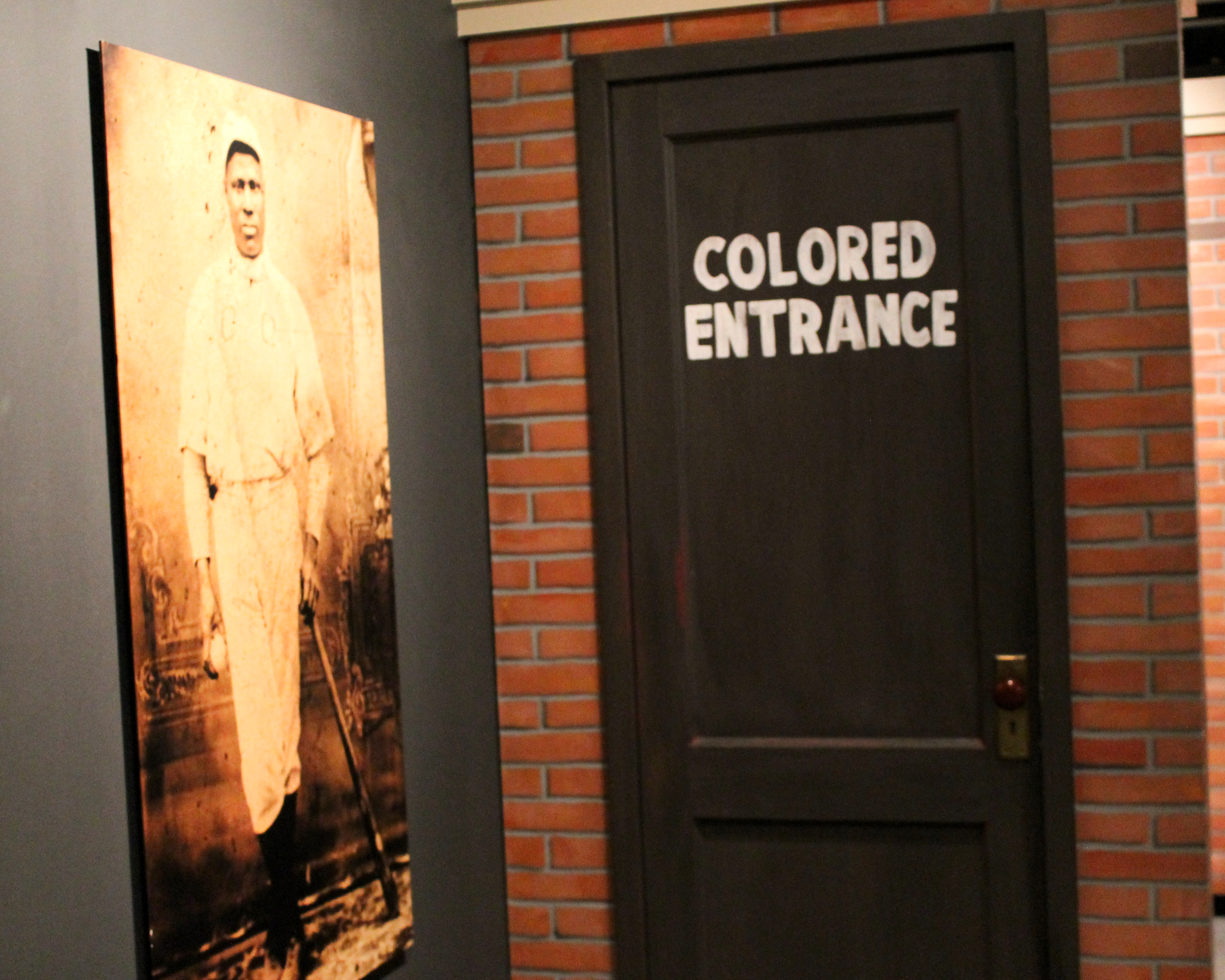 Negro league baseball exhibit at the Baseball Hall of Fame in 2014, featuring an image of former player Josh Gibson.